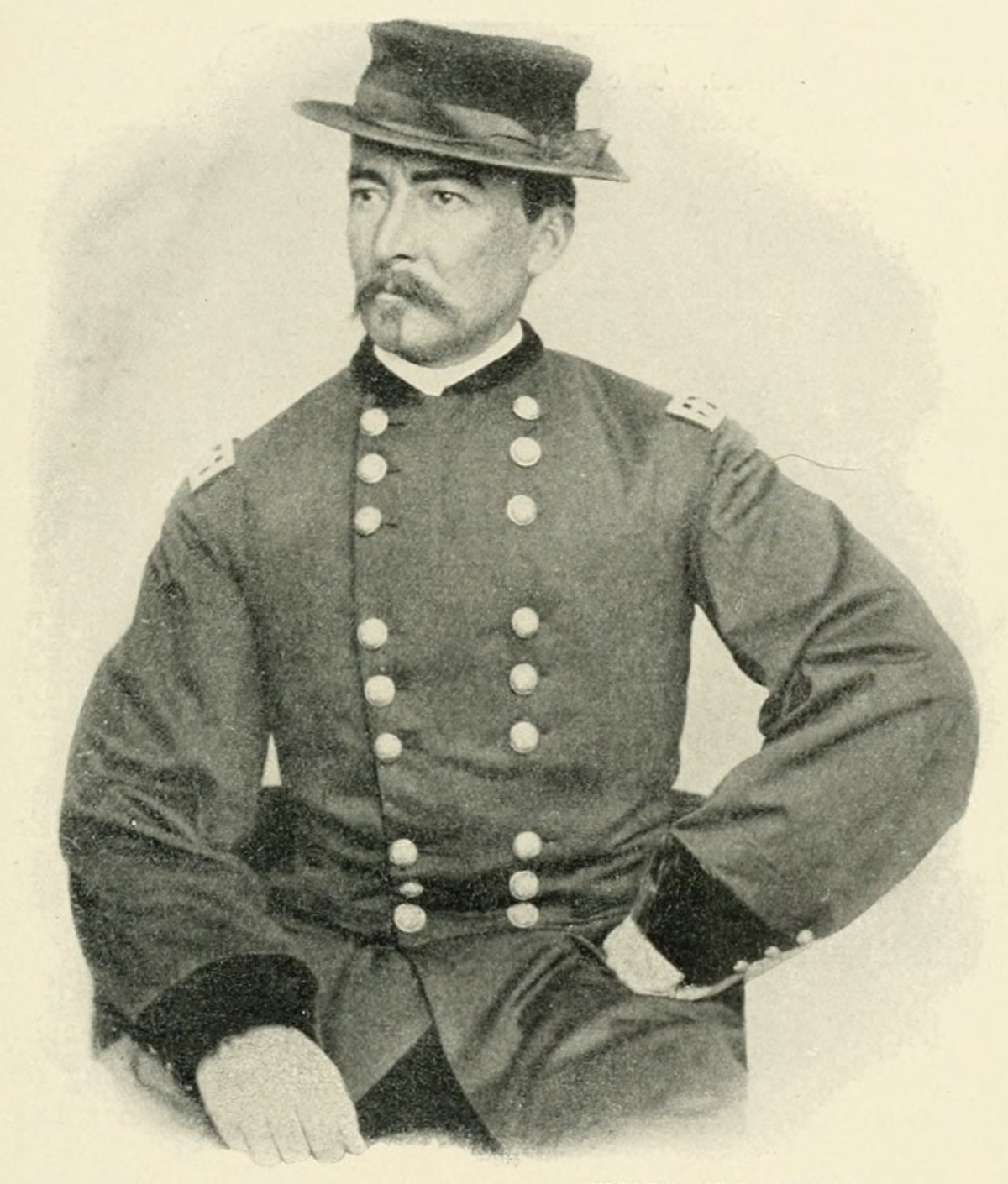 Union General Phillip H. Sheridan